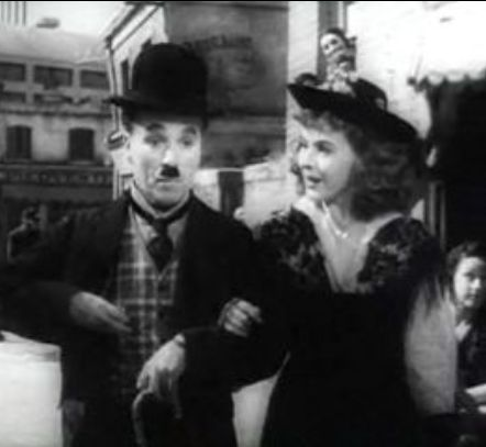 Cropped screenshot of Charlie Chaplin and Paulette Goddard from the film The Great Dictator (1940).